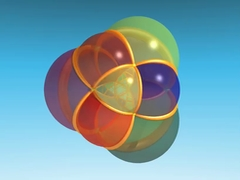 A shot from the Dimensions film